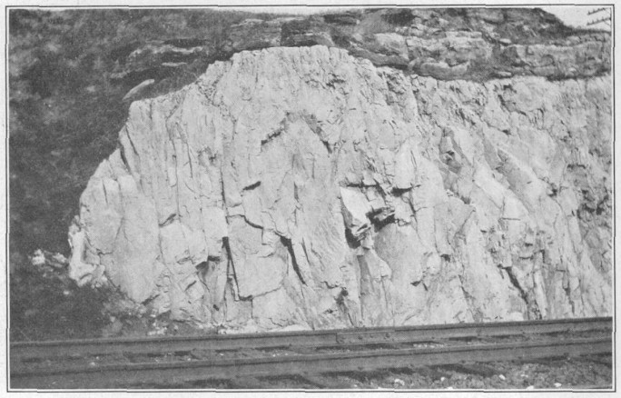 Figure caption: Upper part of the Vintage Dolomite overlain by Kinzers Shale exposed in cut on the Pennsylvania Railroad near Vintage.